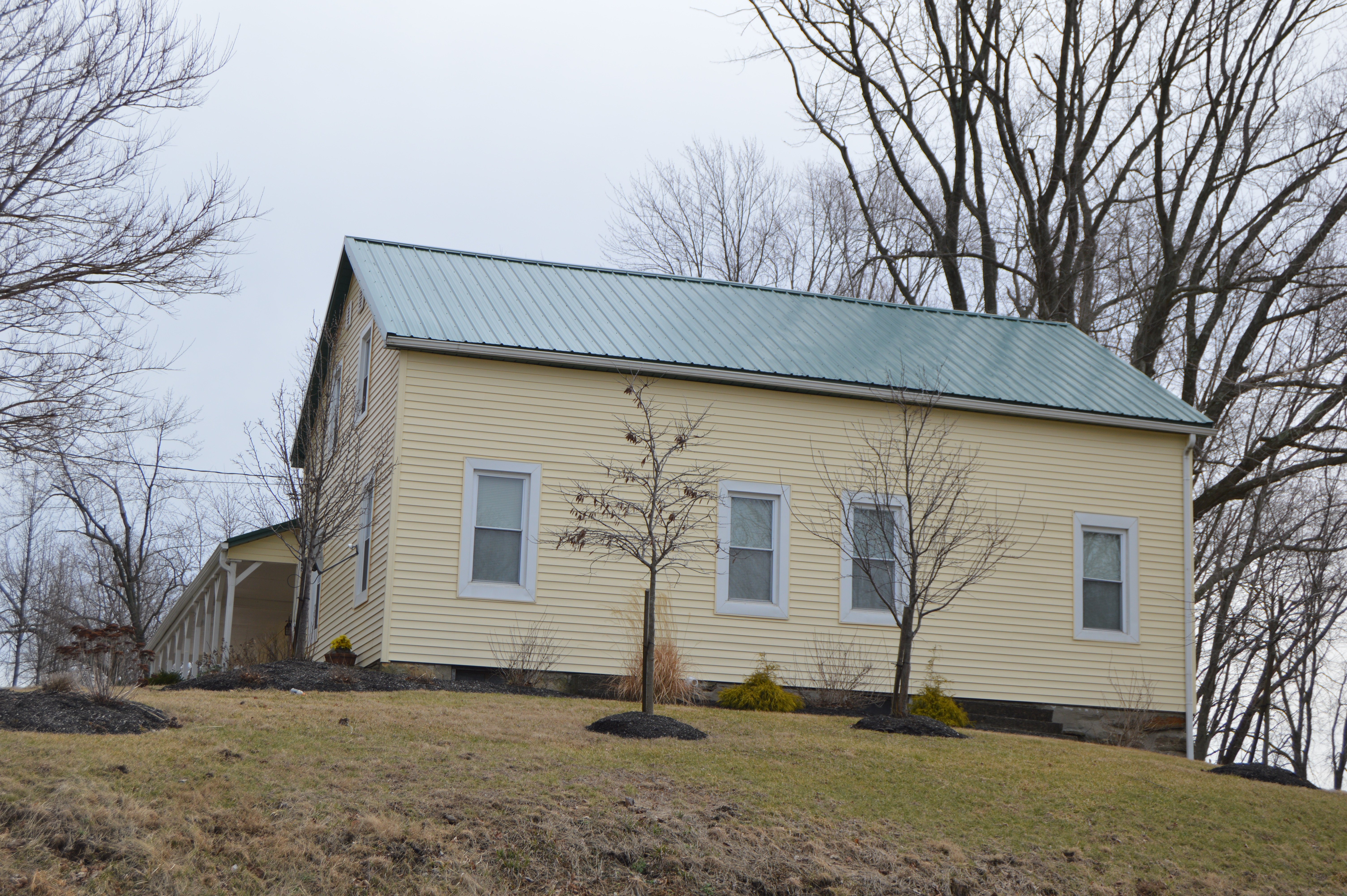 An older house at the junction of Updike and Rich Hill Roads at Rich Hill in Hilliar Township, Knox County, Ohio, United States.